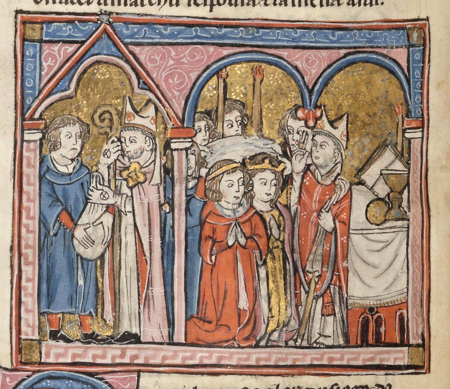 Miniature: Humphrey of Toron sells Isabella and Conrad of Montferrat marries her